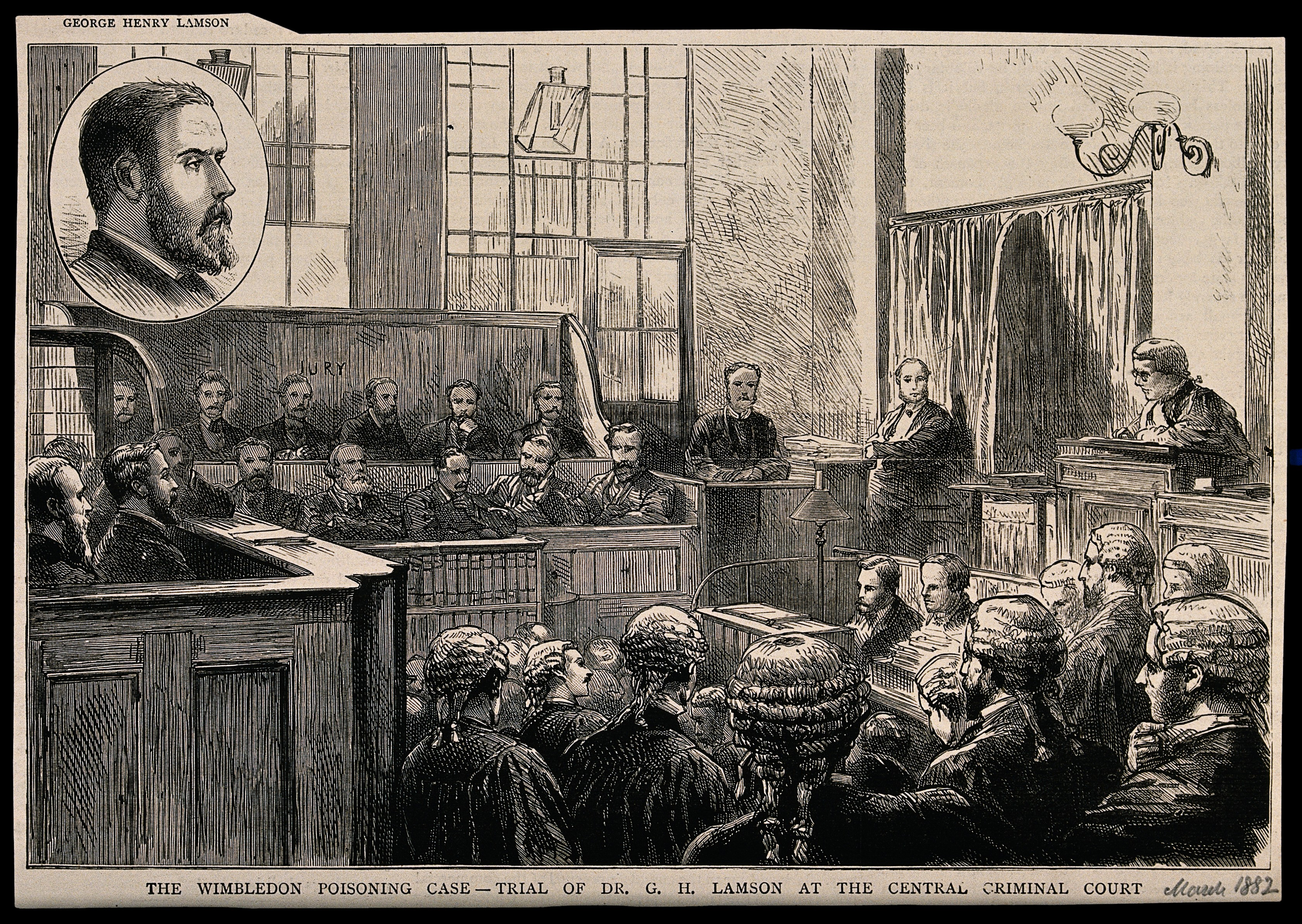 Scenes from the trial of Dr. G. H. Lamson (the Wimbledon Poisoner) at the Central Criminal Court in 1882. Wood engraving. Iconographic Collections